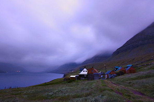 Múli village on the isle of Borðoy/Faroe Islands Picture taken at midnight in summer.